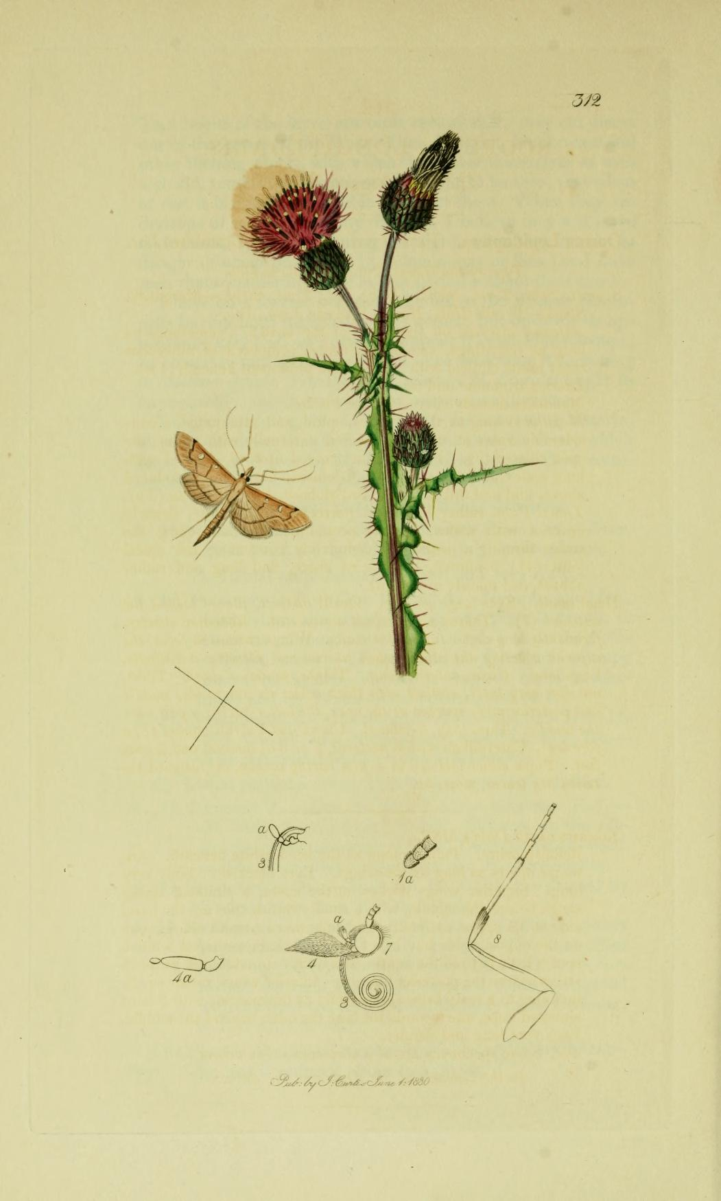 An illustration from British Entomology by John Curtis. Lepidoptera: Scopula longipedalis or Dolicharthria punctalis (Long-legged China-mark).